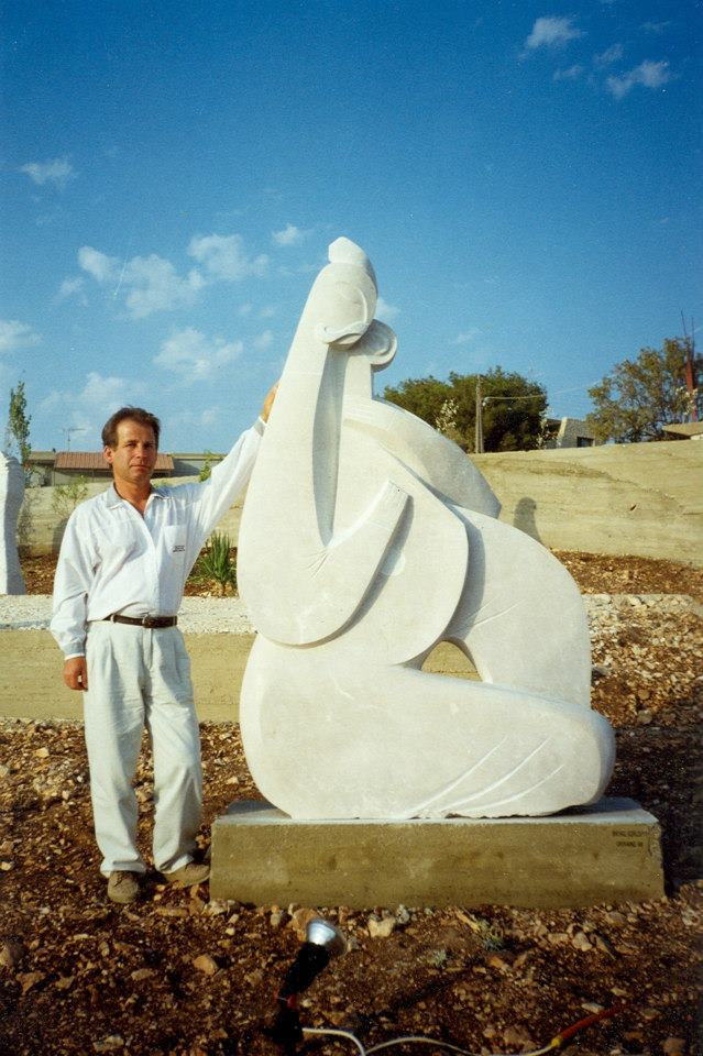 Пісня з України. Ліван. Миха́йло Петро́вич Горлови́й